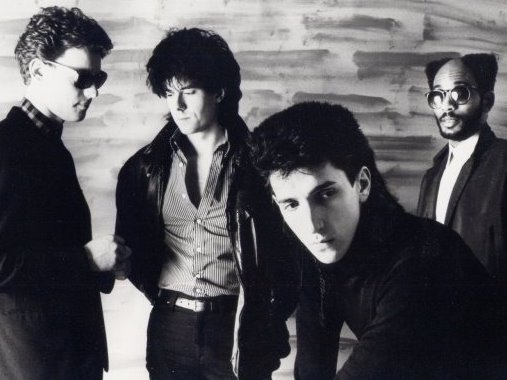 A photo of the group Viva Lula in 1982.